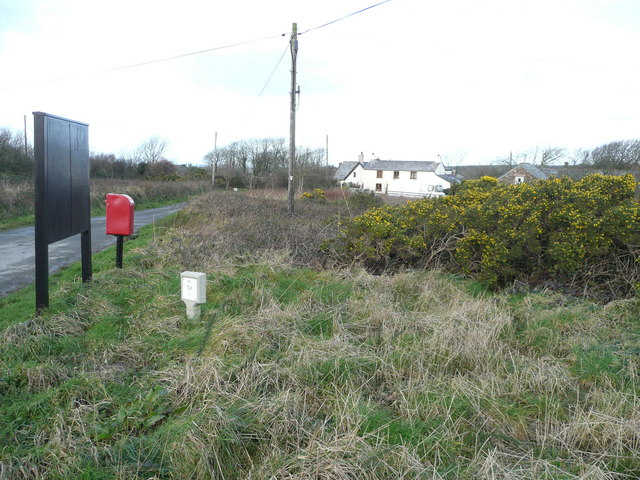 Common land at Eastcott Scattered cottages and farms form this hamlet to the west of the A39.